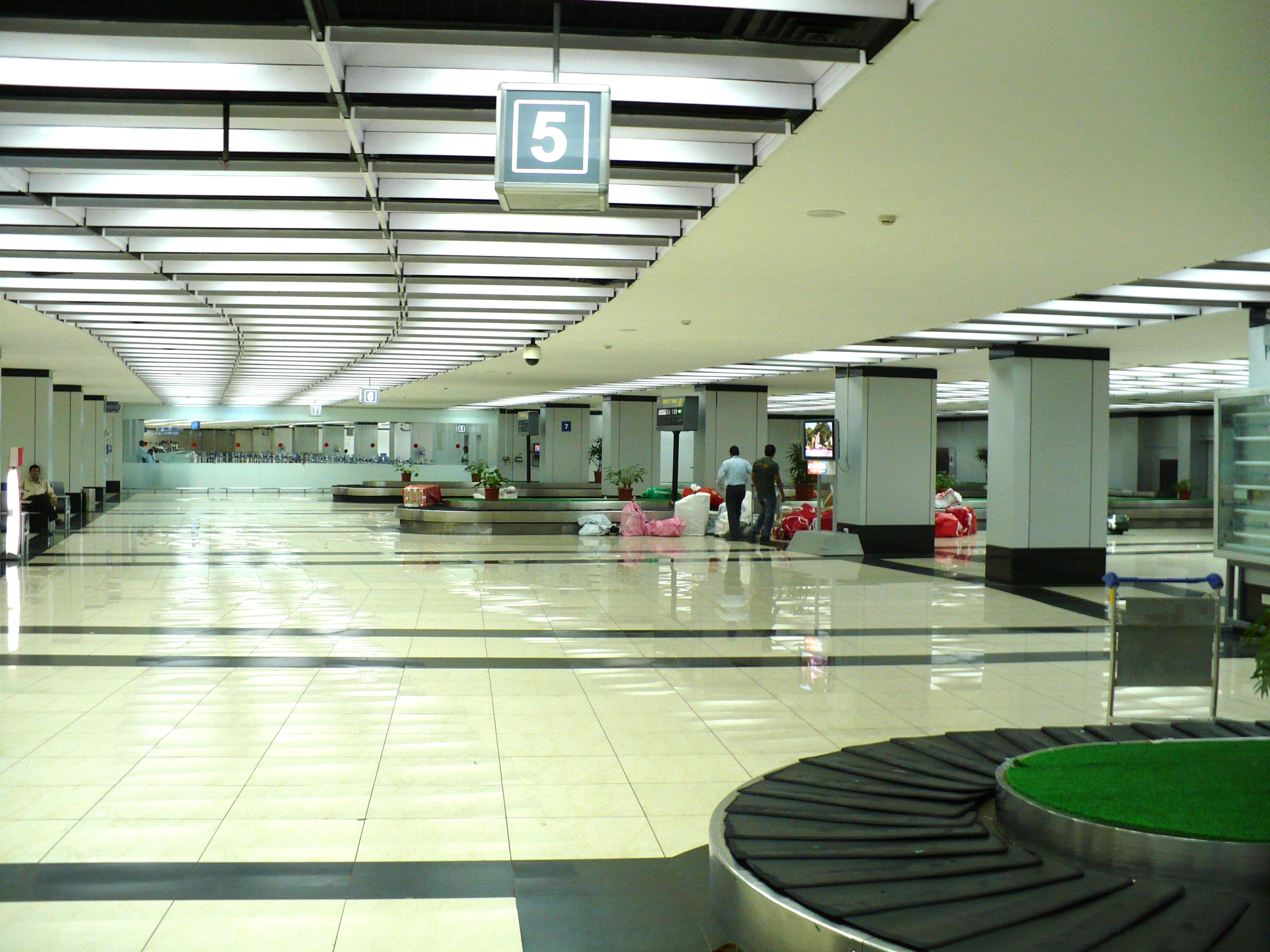 Mumbai International Airport. Taken by Nikhil Kulkarni.